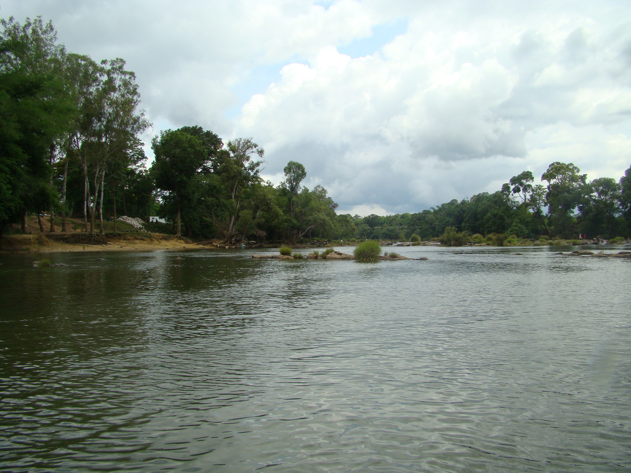 View of river Kaveri (Cauveri) at Dubare Elephant Camp.